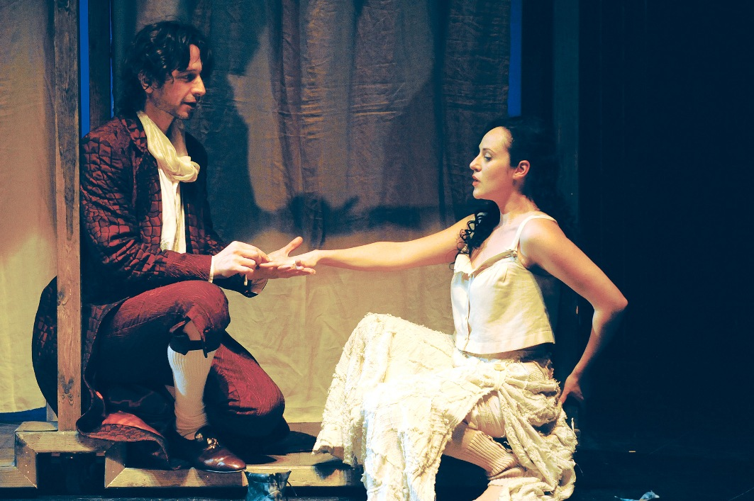 Yael Toker